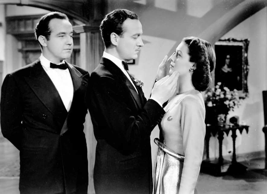 Still of Broderick Crawford, David Niven, and Loretta Young from the 1939 film Eternally Yours.